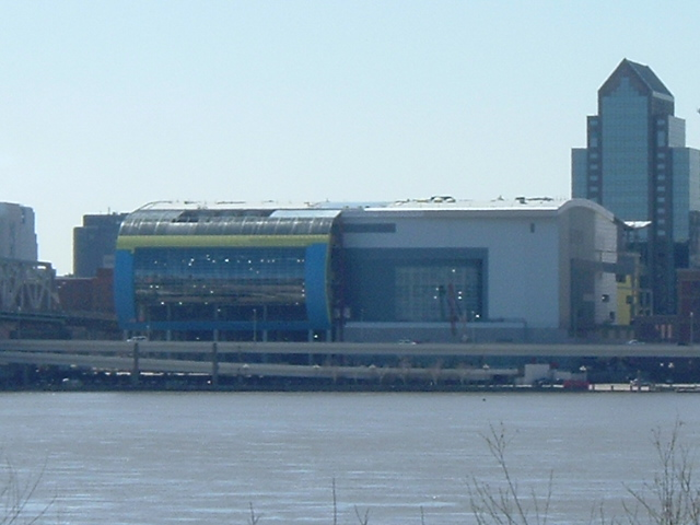 Louisville Arena viewed from Indiana on March 25, 2010